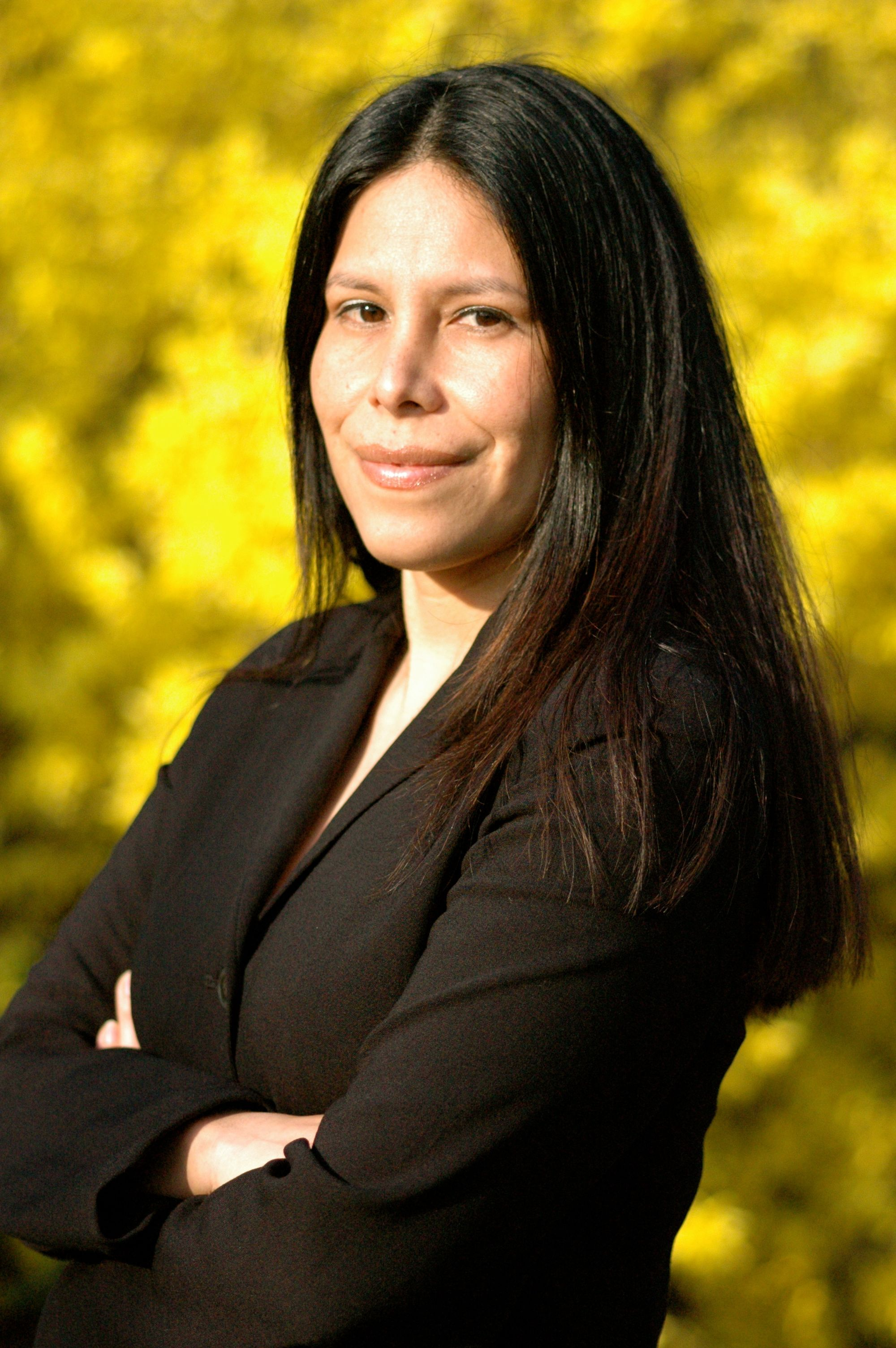 International Lawyer Monica Feria Tinta, awarded the Gruber Justice Prize 2007